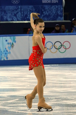 Russian figure skater Adelina Sotnikova at the 2014 Winter Olympics.